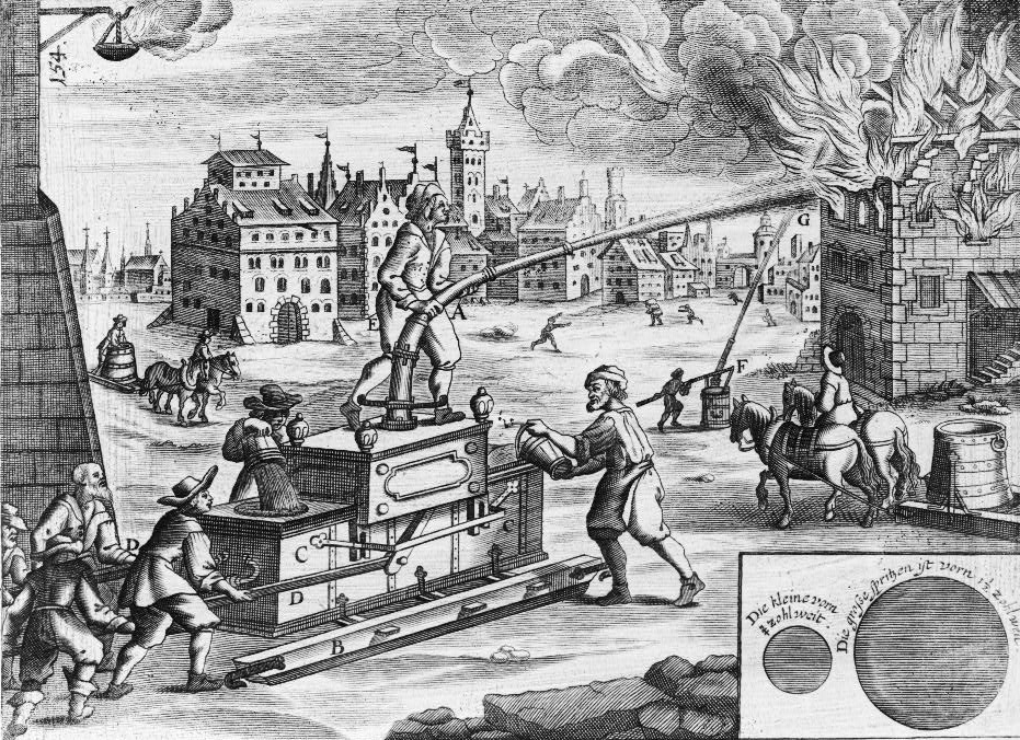 Men operating a water pump to put out a fire. Illustration in "Theatrum Machinarum Novum" by German architect and engineer Georg Andreas Böckler (1644-1698).